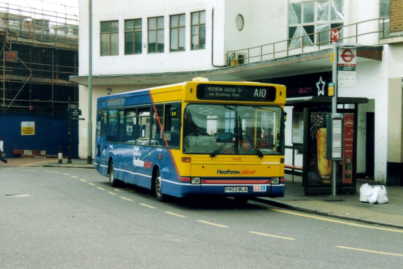 First London DP403 (P403MLA), a Dennis Dart SLF with a Plaxton Pointer body, at Uxbridge in April 2006. It wears the Heathrow Fast blue and yellow livery unique to route A10 and abandoned when the vehicles on the route were replaced.